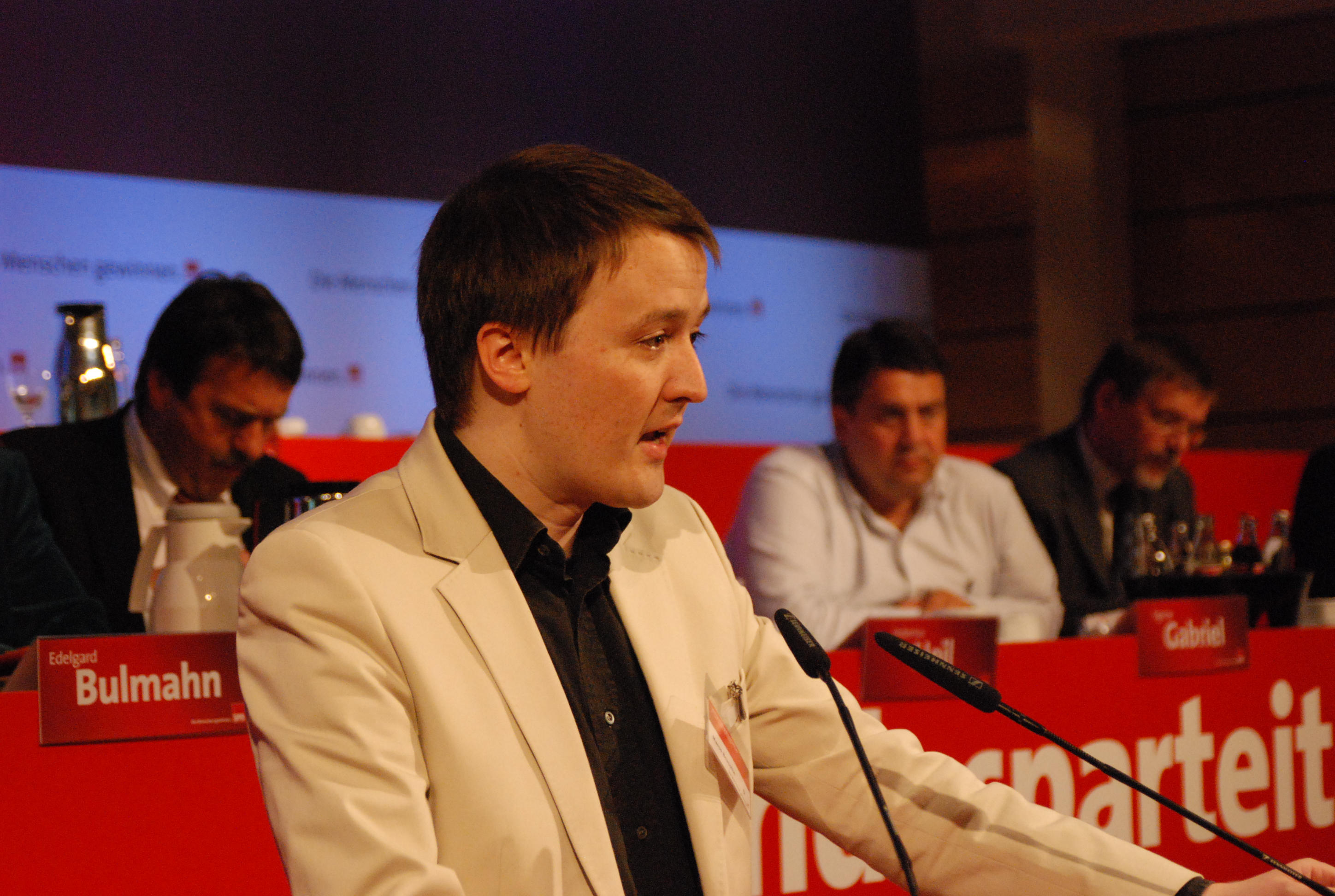 Marco Brunotte, German SPD politician